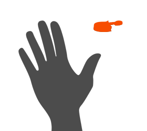 Size comparison of the small deuterostome Vetulicola rectangulata (about 7 cm long).